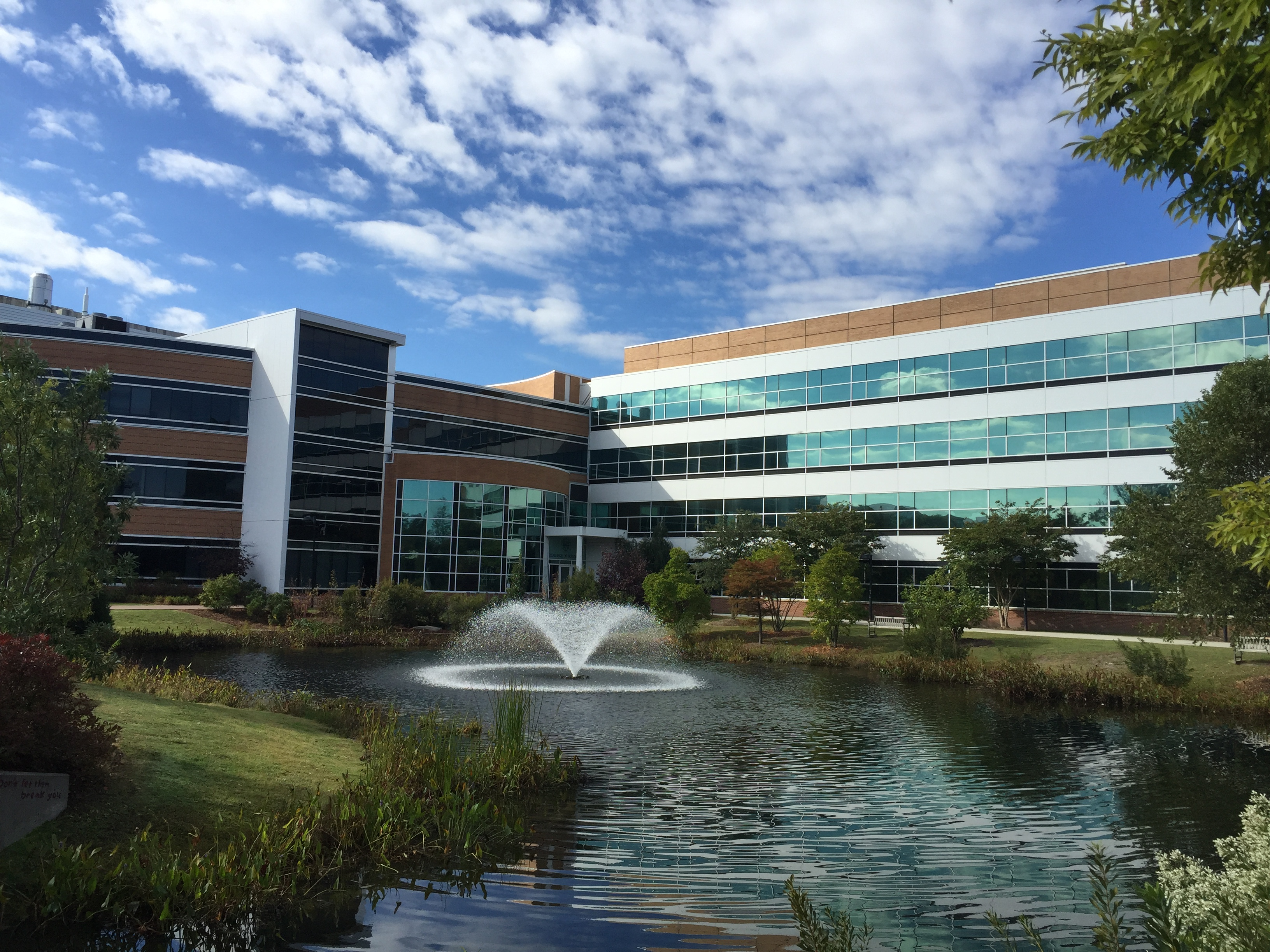 College of Sciences Building